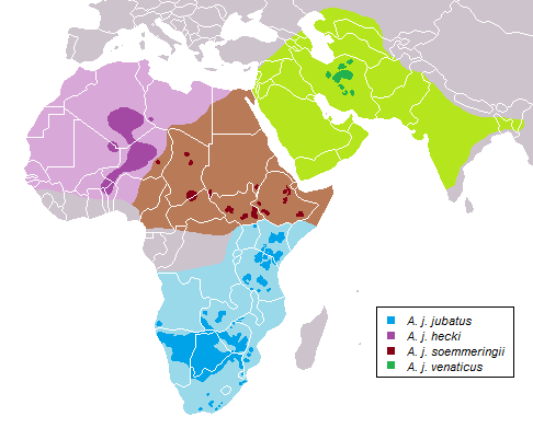 The range of currently recognised subspecies of cheetah.